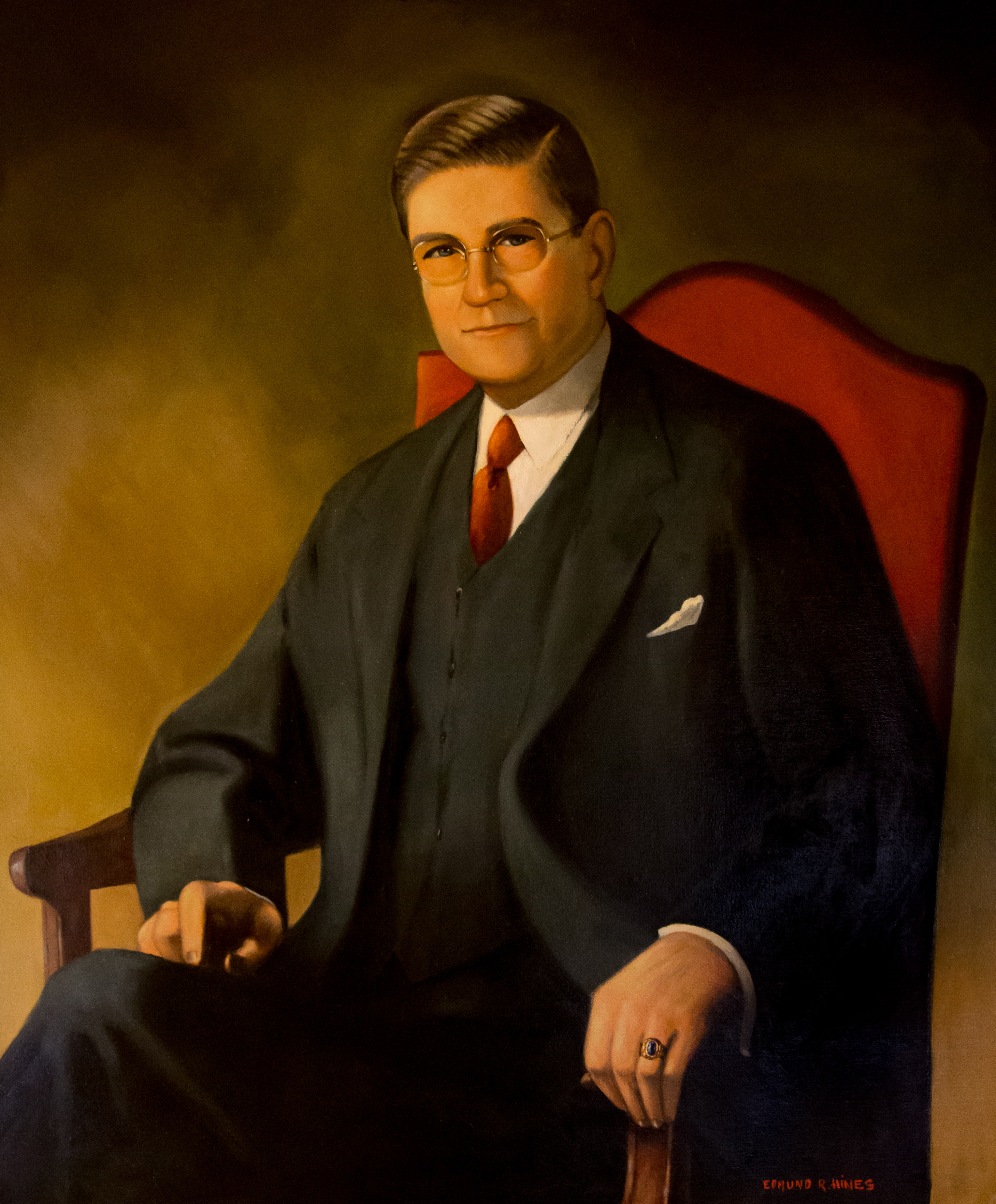 RI Governor John S. McKiernan. Official portrait by Edmund R. Hines in the Rhode Island State House.